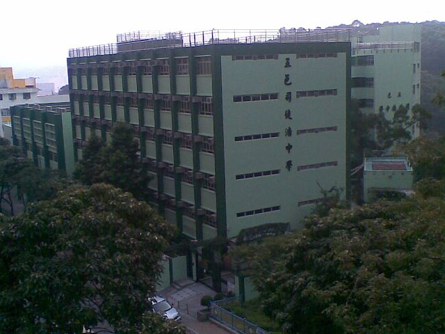 FDBWA Szeto Ho Secondary School, Lam Tin, Kowloon, Hong Kong